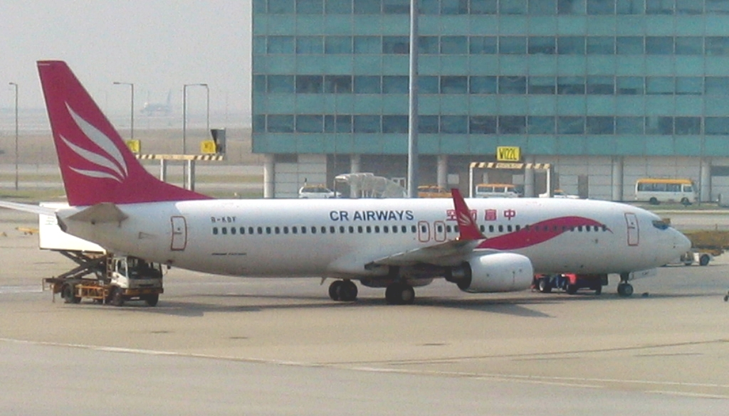 CR Airways Boeing 737. Photo taken by User:Adz at Hong Kong International Airport on 29 October 2006.